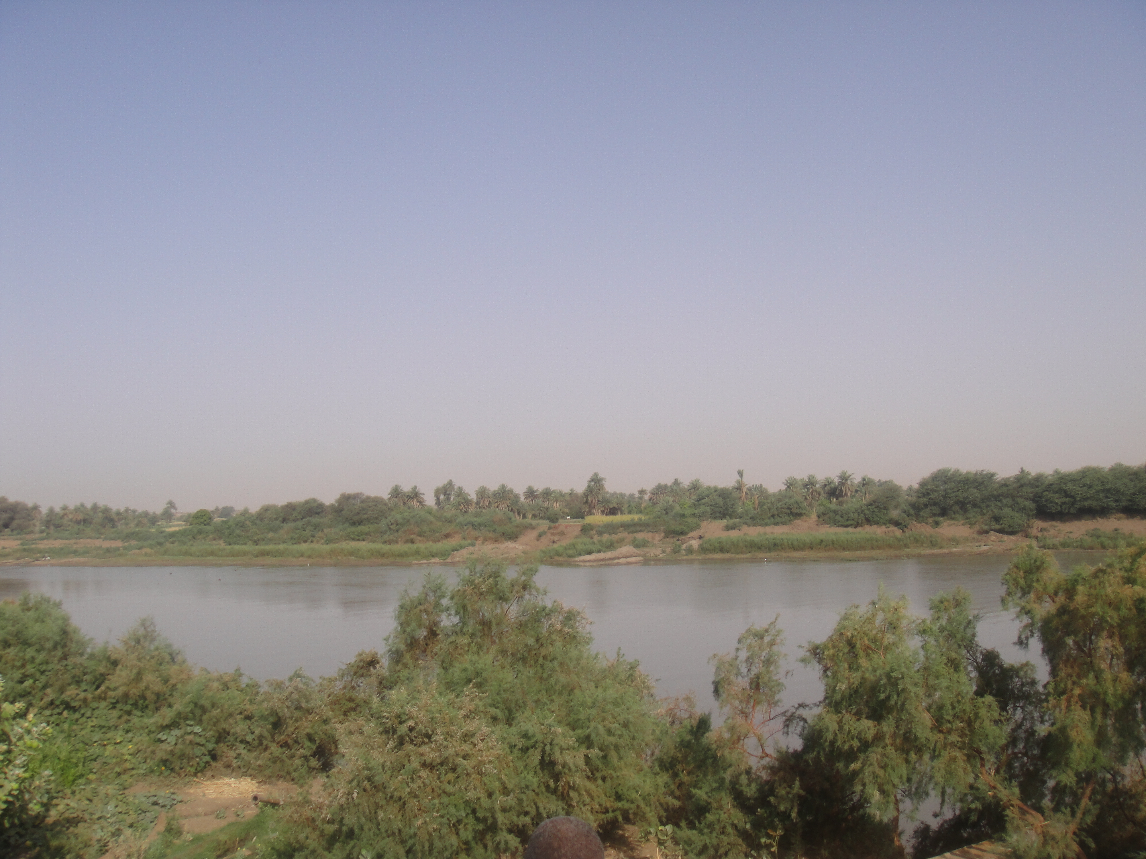 the nile river at Nagazou Island